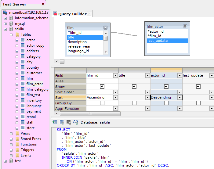 Screenshot of SQLyog - MySQL GUI